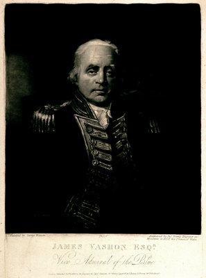 Portrait of Admiral James Vashon